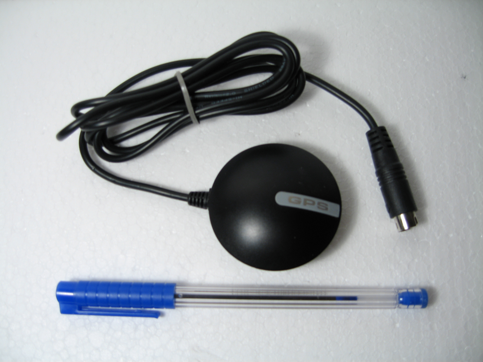 A GPS receiver equipped with Sirf Star III chip